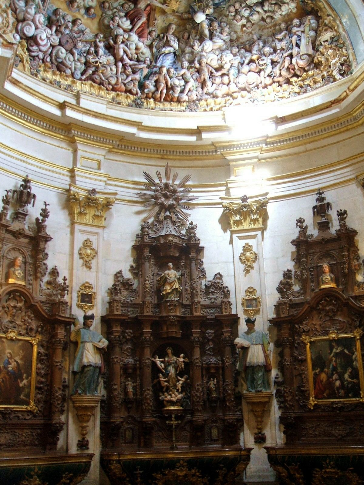 Sacristía Mayor de la Catedral de Burgos, España